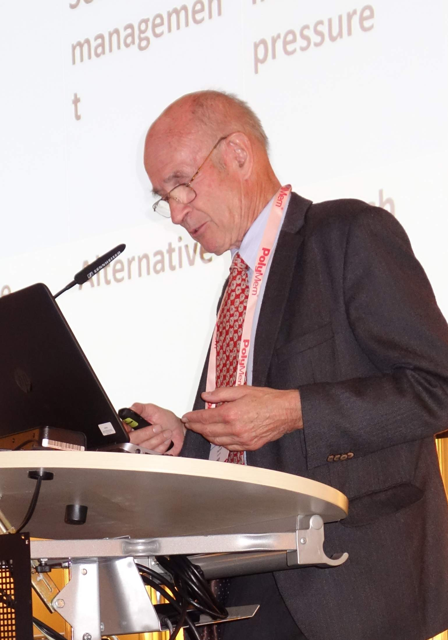 Hugo Partsch, Professor of Dermatology at the Medical University of Vienna